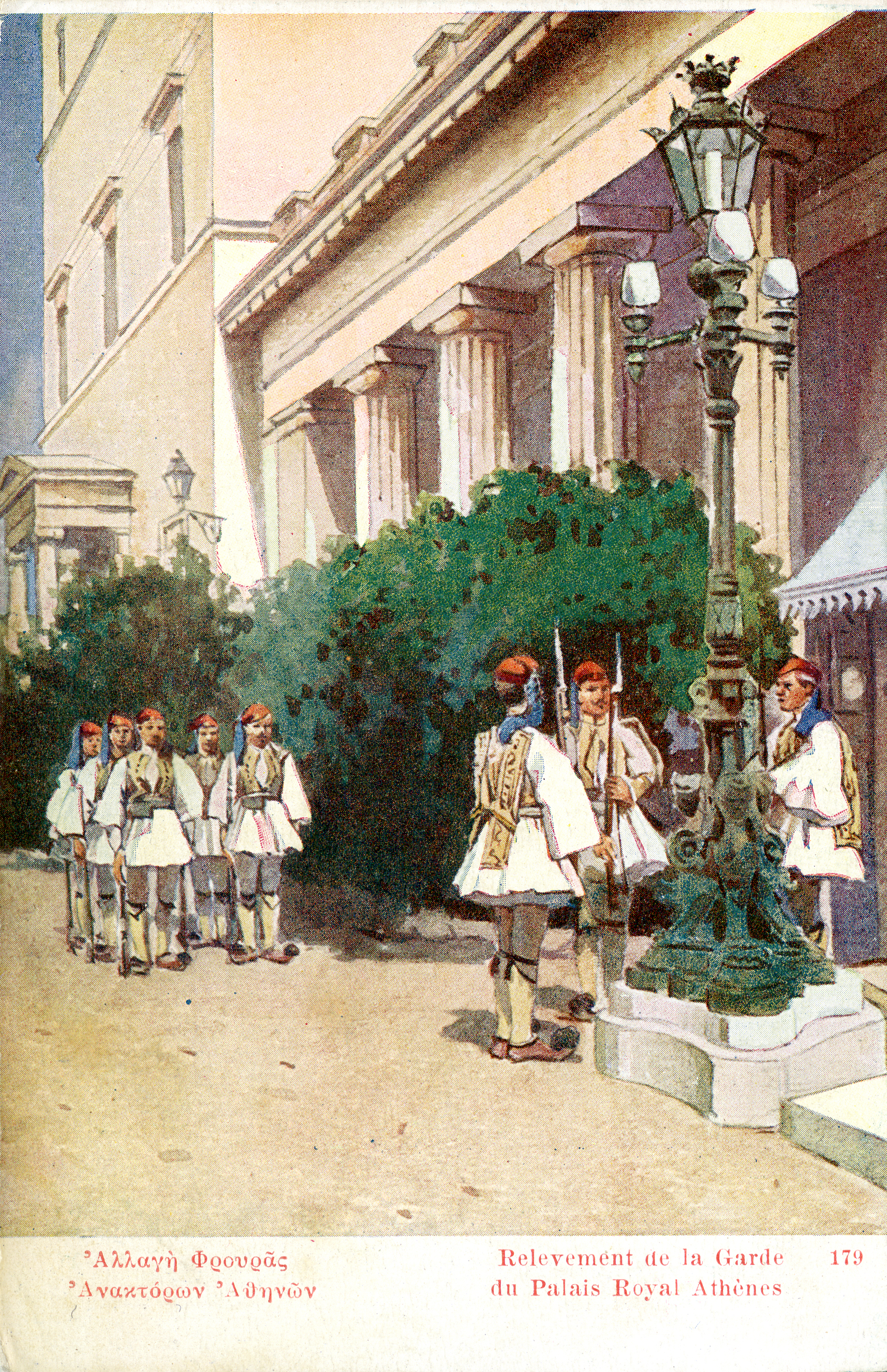 Τhe change of the royal guards in Athens. Postcard published by Aspiotis. Reproduction of a painting by Angelos Giallinas.